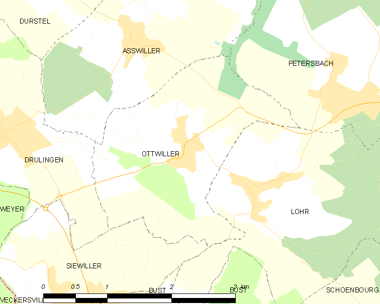 Map of French municipality